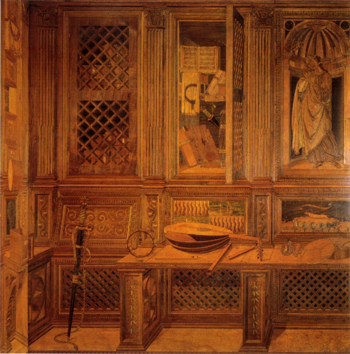 Mosaic woodwork, Studiolo